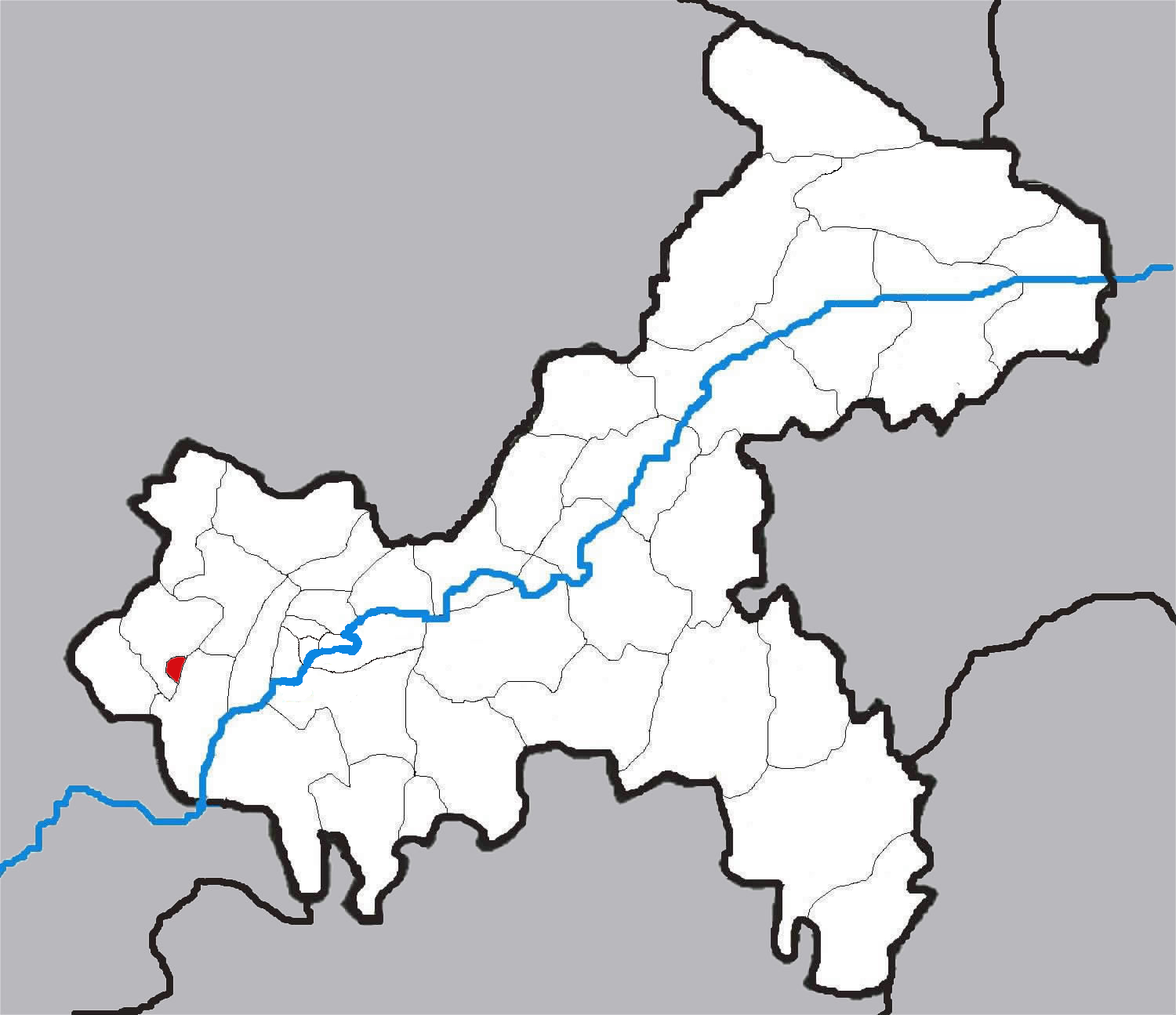 Administration maps of Chongqing, China